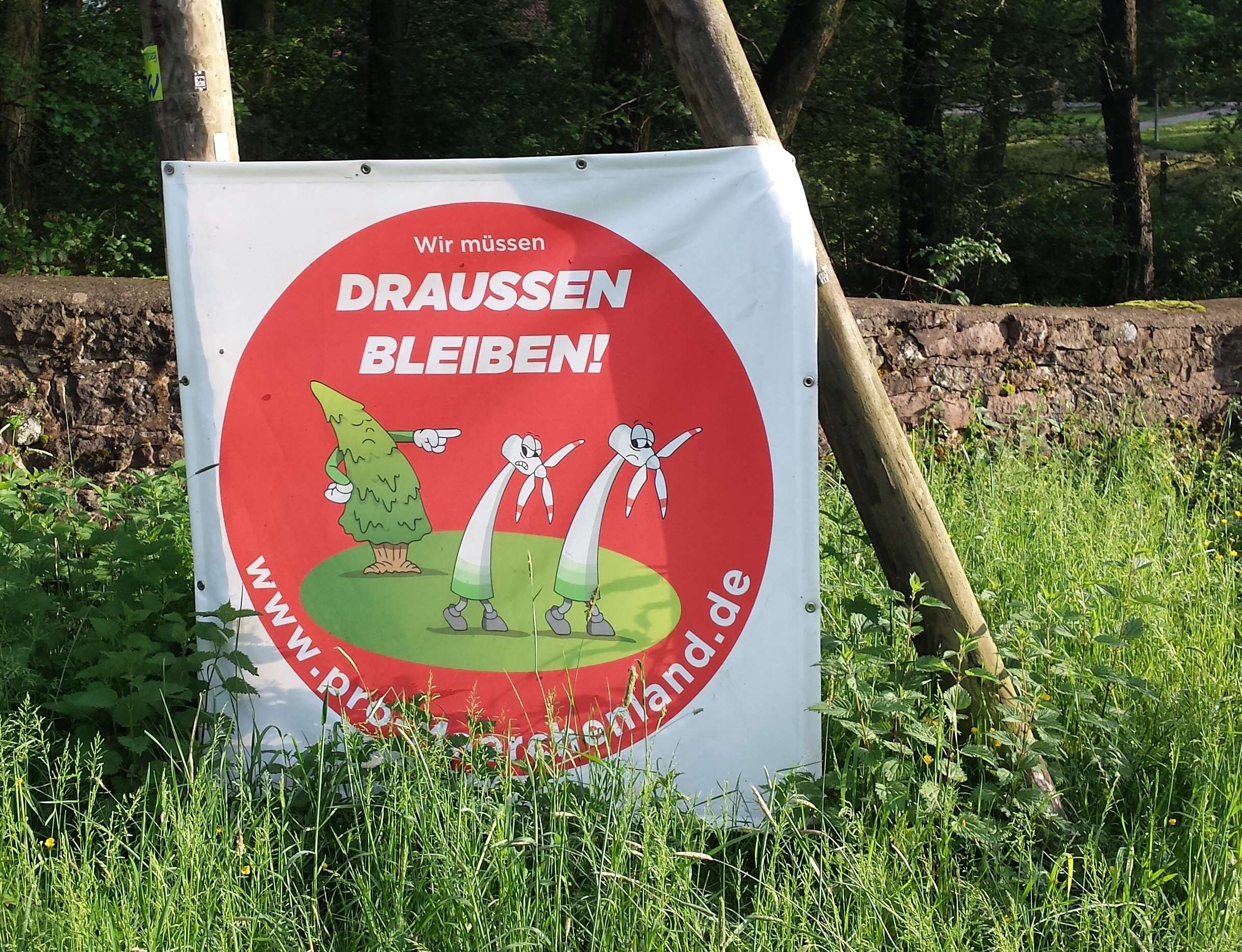 Anti-wind farm sign in Reinhardswald forest (Sababurg), Hessen, Germany